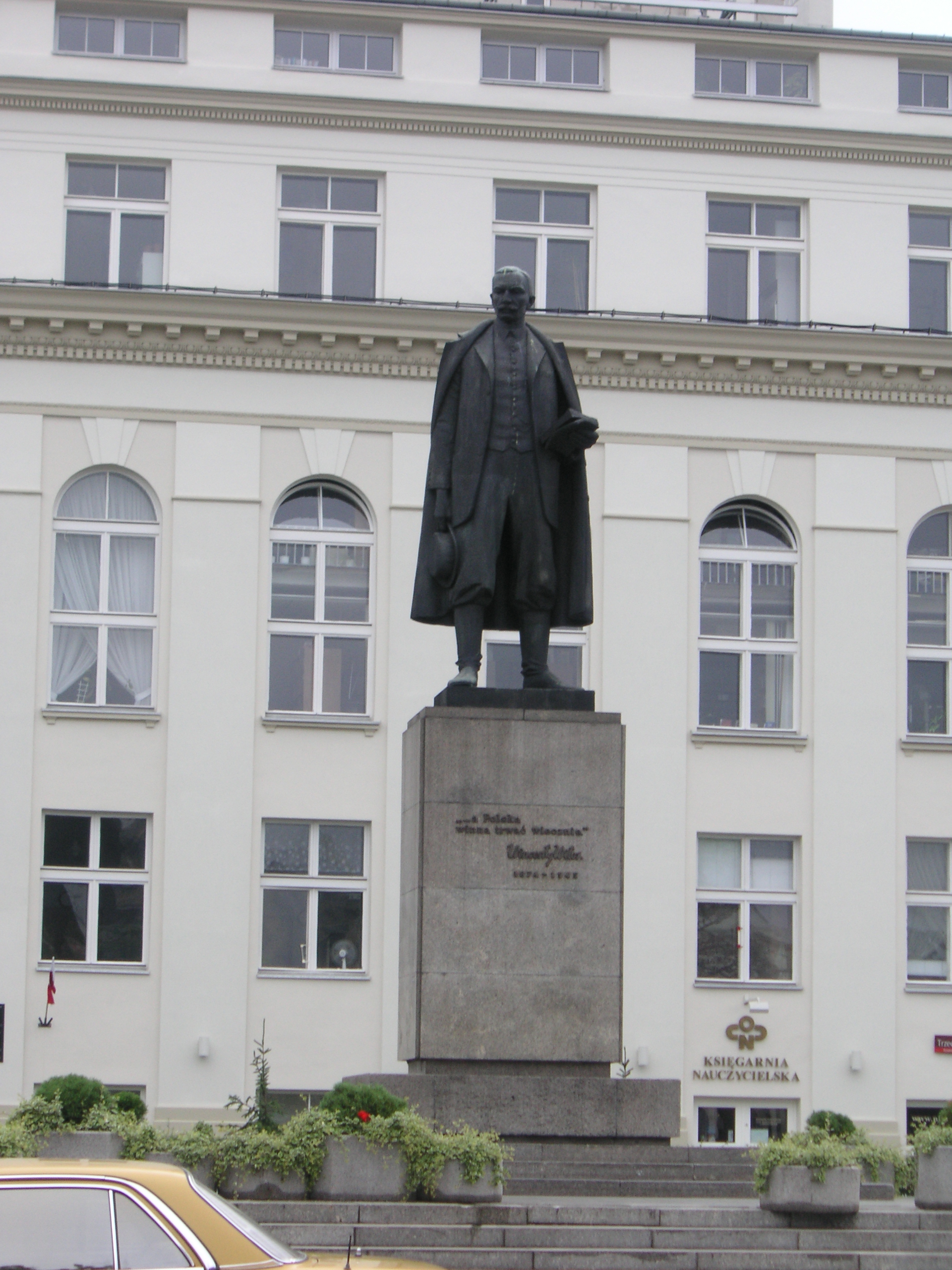 made on a summer day in Warsaw; Monument of Wincenty Witos in Warsaw